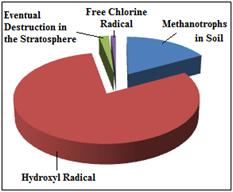 A pie chart demonstrating the relative effects of various sinks of atmospheric methane.